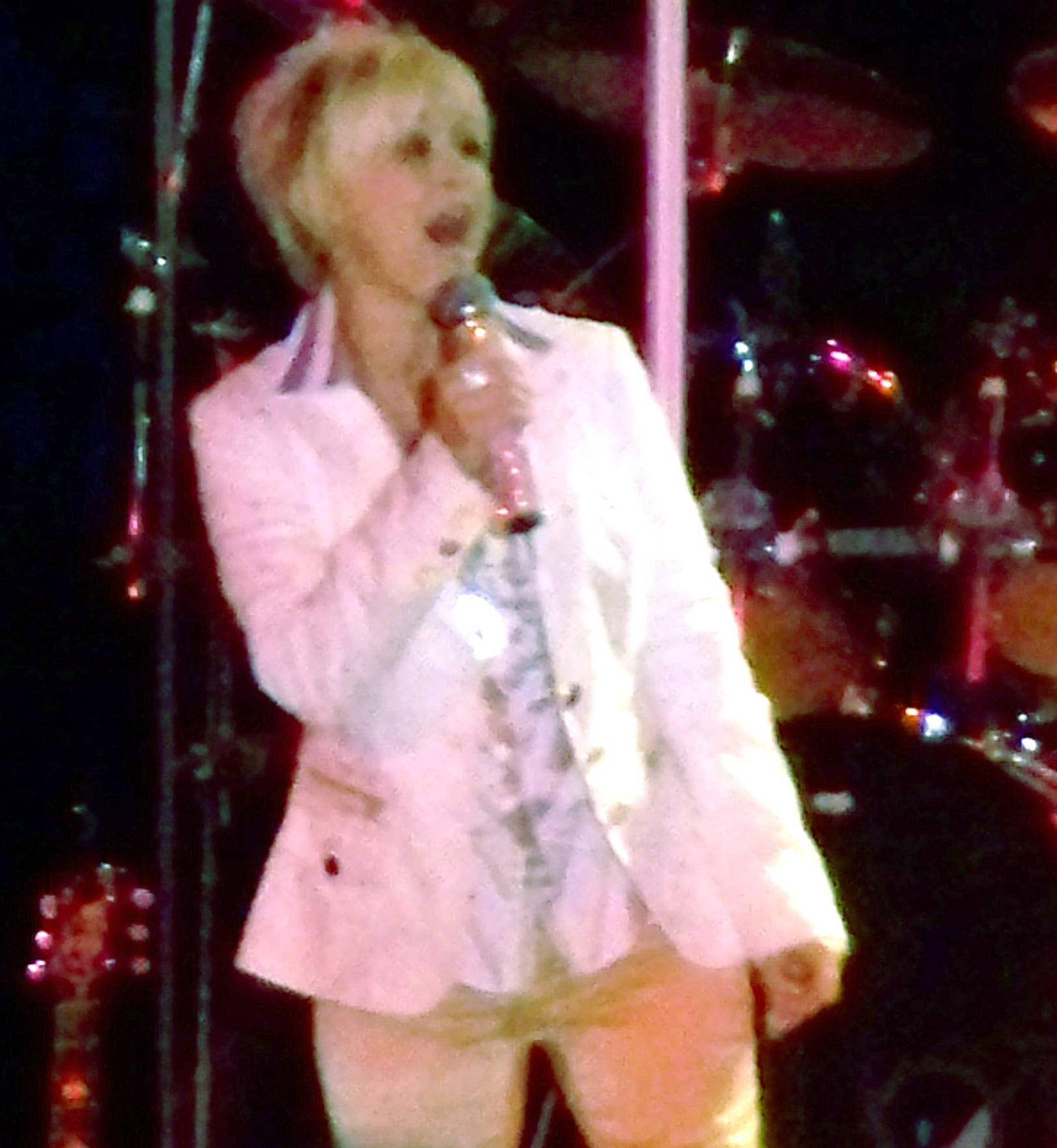 Photo of Lorrie Morgan in concert in Choctaw, MS.